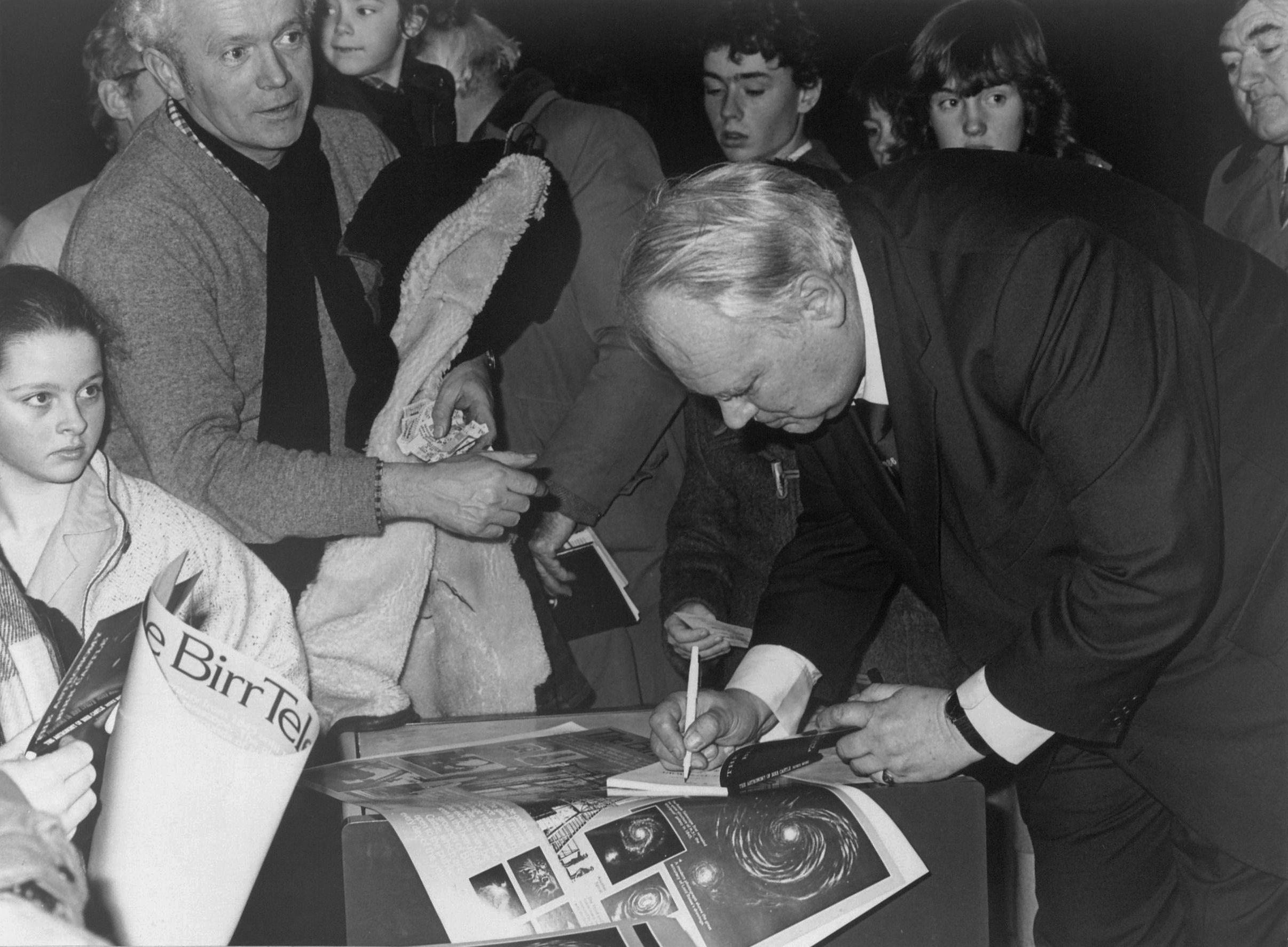 UL40_Box27_Folder25_001